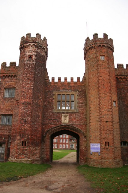 Lullingstone Castle Gatehouse